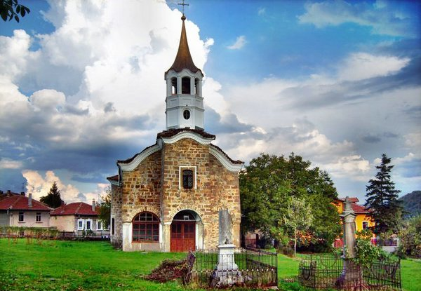 Kilifarevo, church St. Arch. Michael